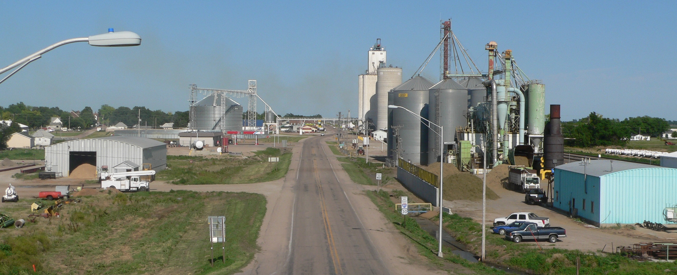 Elm Creek, Nebraska; seen looking east from overpass at west end of town, carrying U.S. Highway 183 over U.S. Highway 30 (in center of picture) and the Union Pacific Railroad tracks (visible behind light-blue building at lower right).